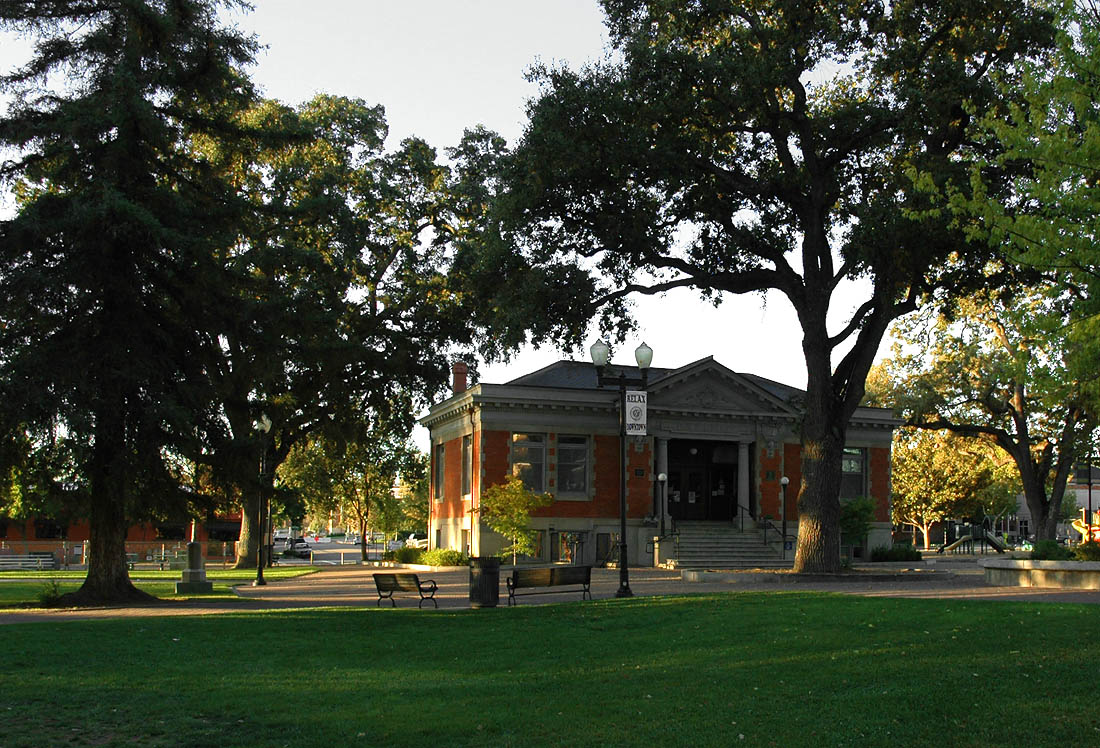 The former local Carnegie Library now houses the Paso Robles Historical Society museum. Located in Paso Robles, northern San Luis Obispo County, California. It was fully renovated after the 2003 Paso Robles earthquake.